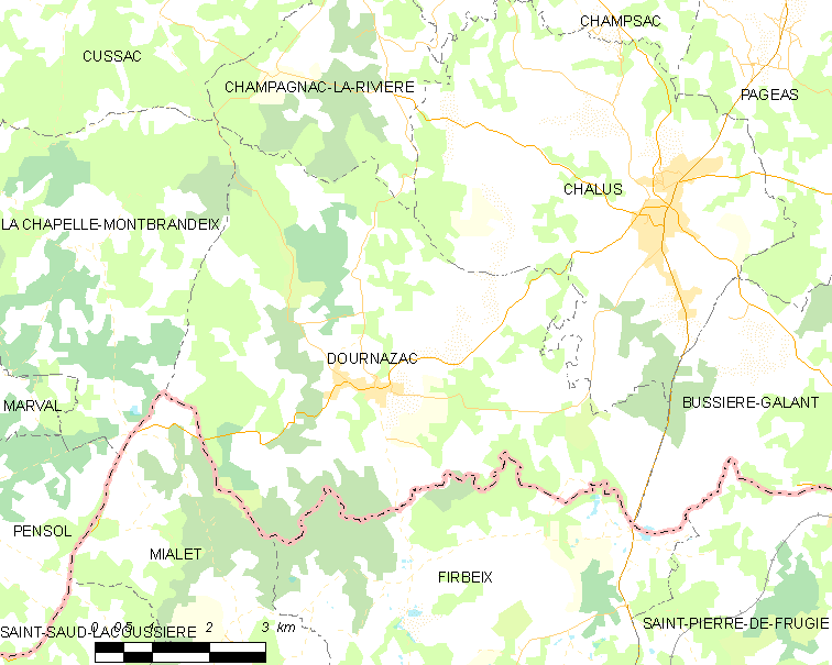 Map of French municipality Dournazac